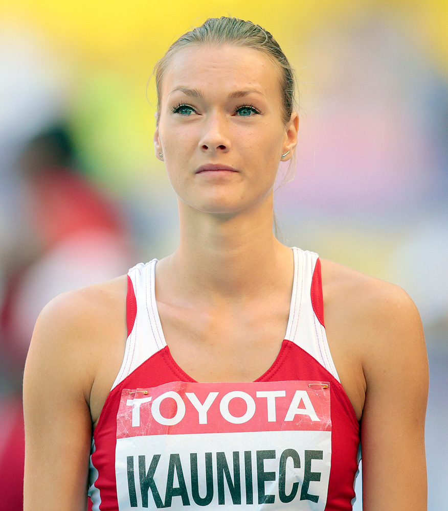 Laura Ikauniece on 14th IAAF World Championships in Athletics